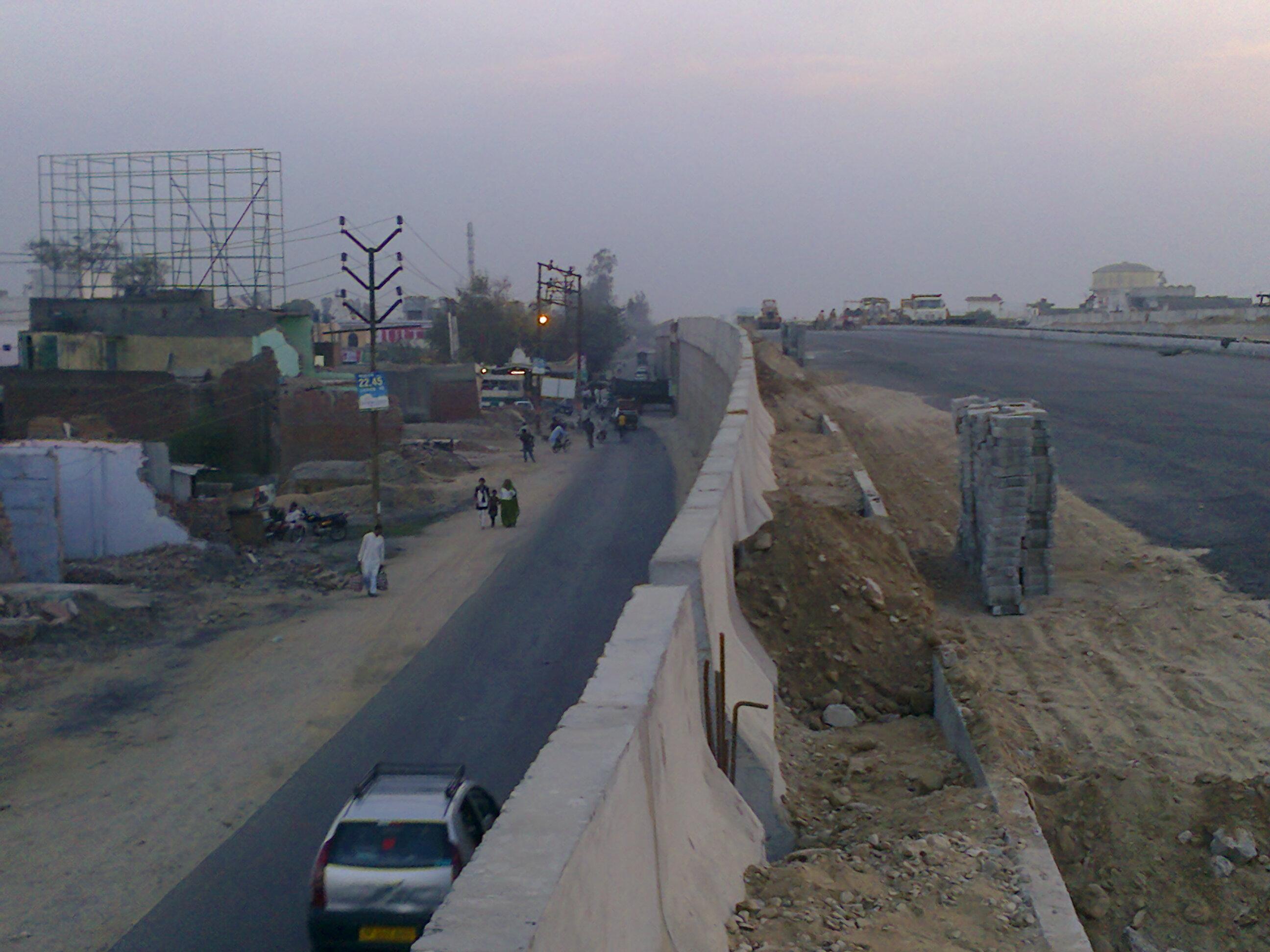 This is an image of an under-construction flyover at the crossing between Sardhana Road (State Highway 82) and NH-58 at the Meerut bypass section of NH-58.